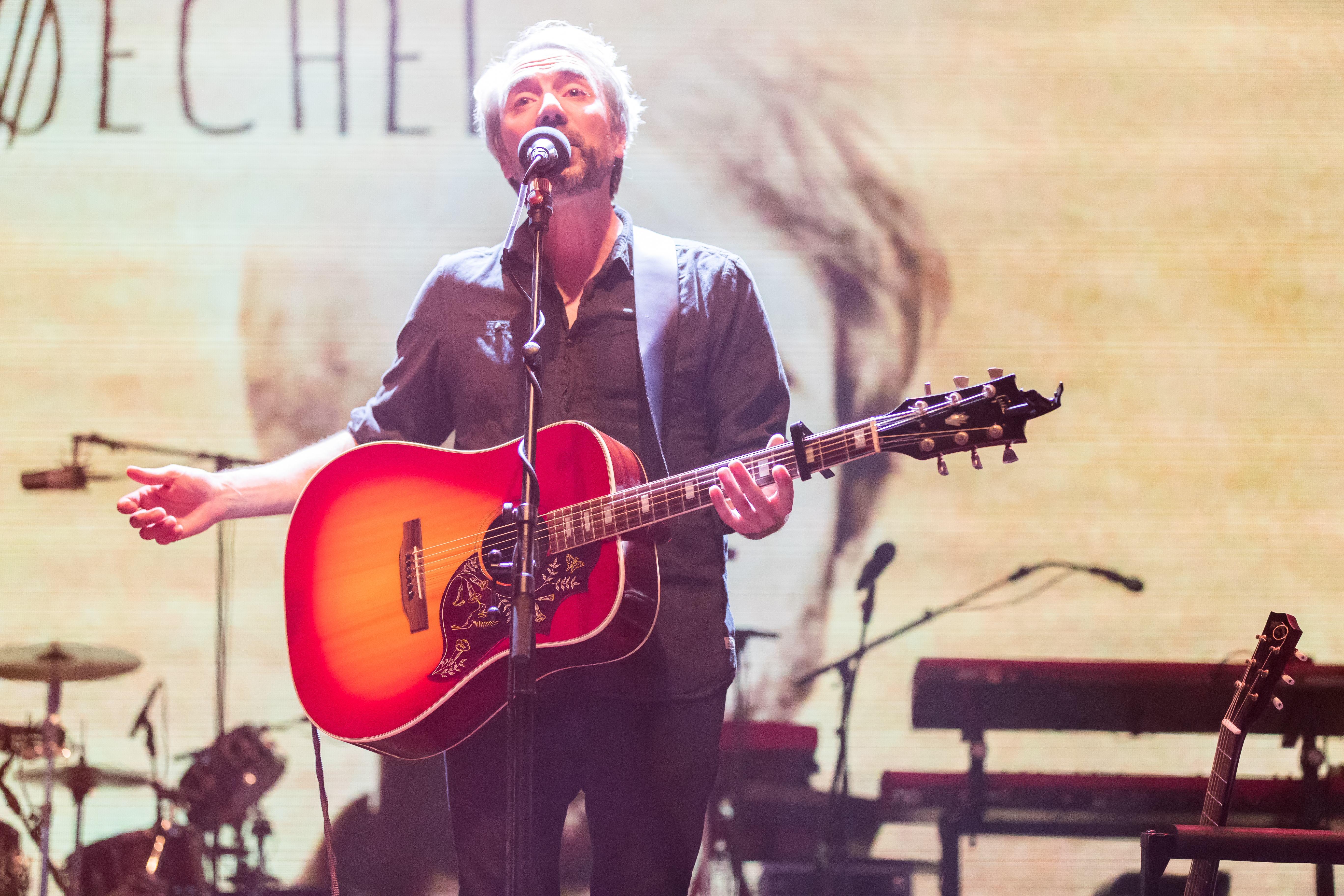 Jan Löchel support for Fury in the Slaughterhouse during Zeltfestival Rhein-Neckar at Maimarkt, Mannheim, Baden-Württemberg, Germany on 2017-06-14, Photo: Sven Mandel